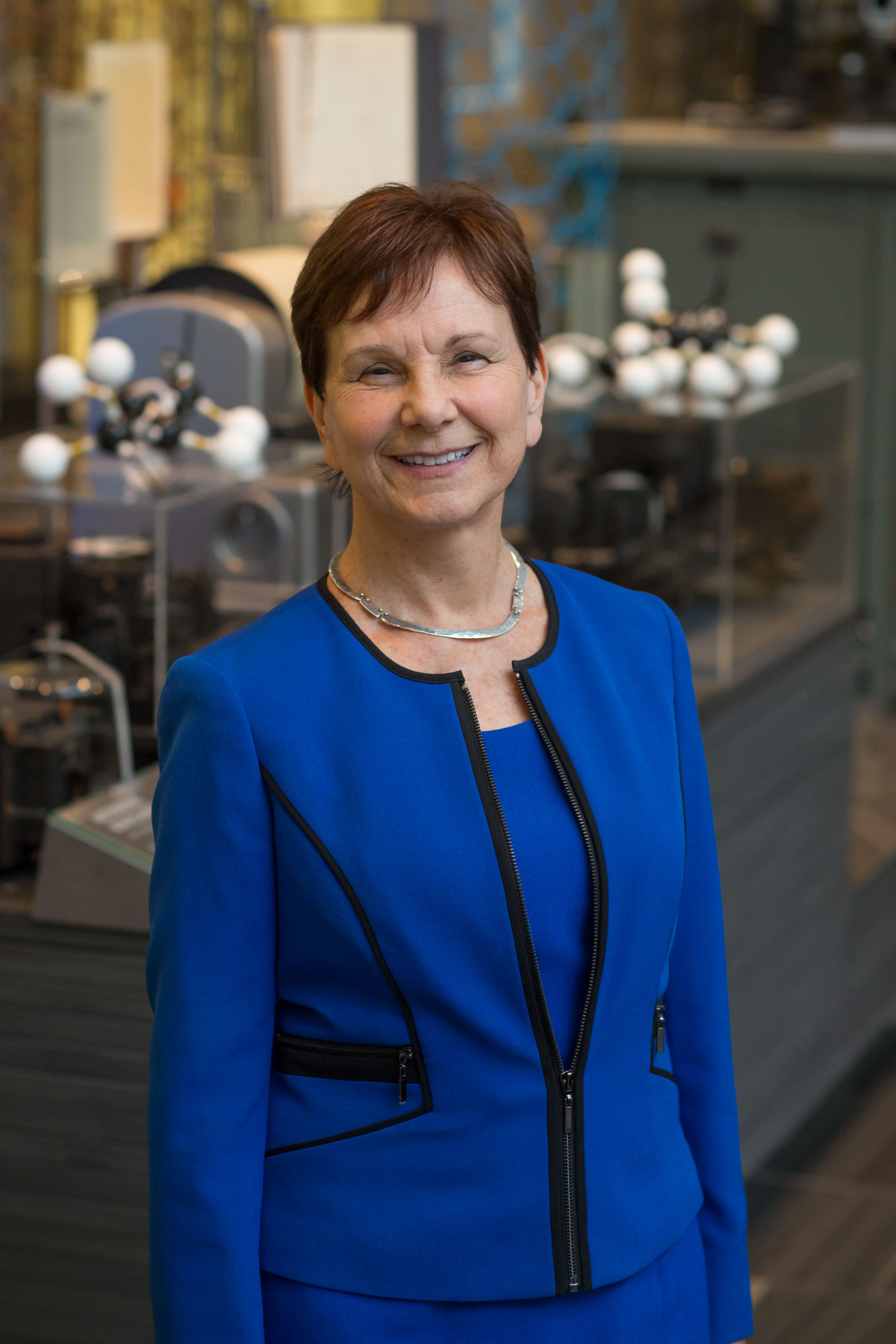 Photograph of Janet Woodcock, recipient of the Biotechnology Heritage Award, 3 June 2019 at the BIO International Convention, hosted by the Biotechnology Innovation Organization (BIO).